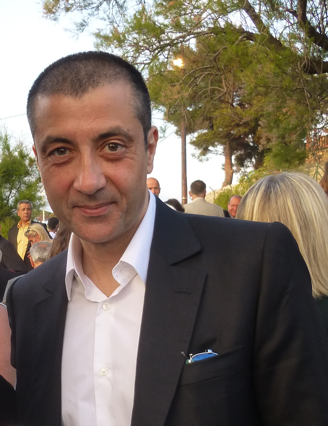 Mourad Boudjellal at the Rugby Club Toulonnais Garden Party in Jardin de la tour Royal of Toulon in June 2014.